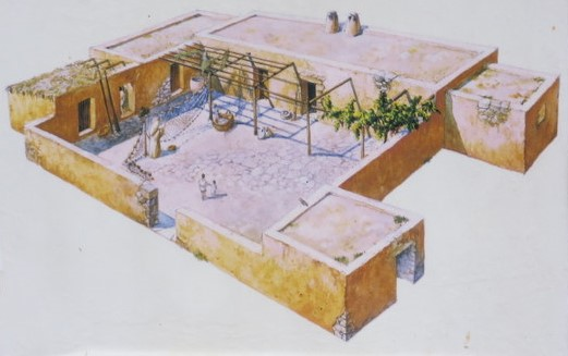 Fisherman's house 2c BCE-1c CE. Drawing from Et-Tell.